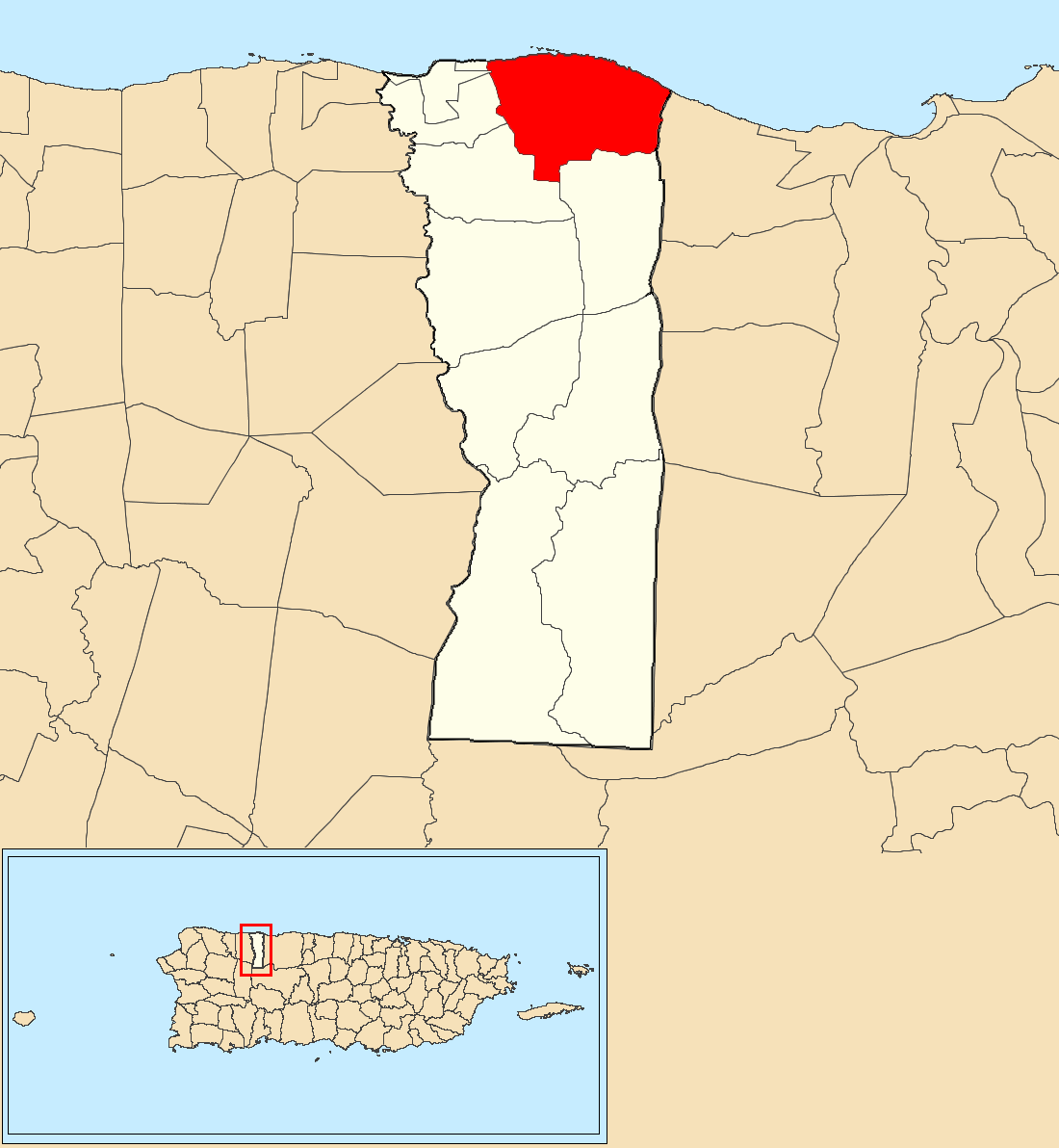 Carrizales, Hatillo, Puerto Rico locator map